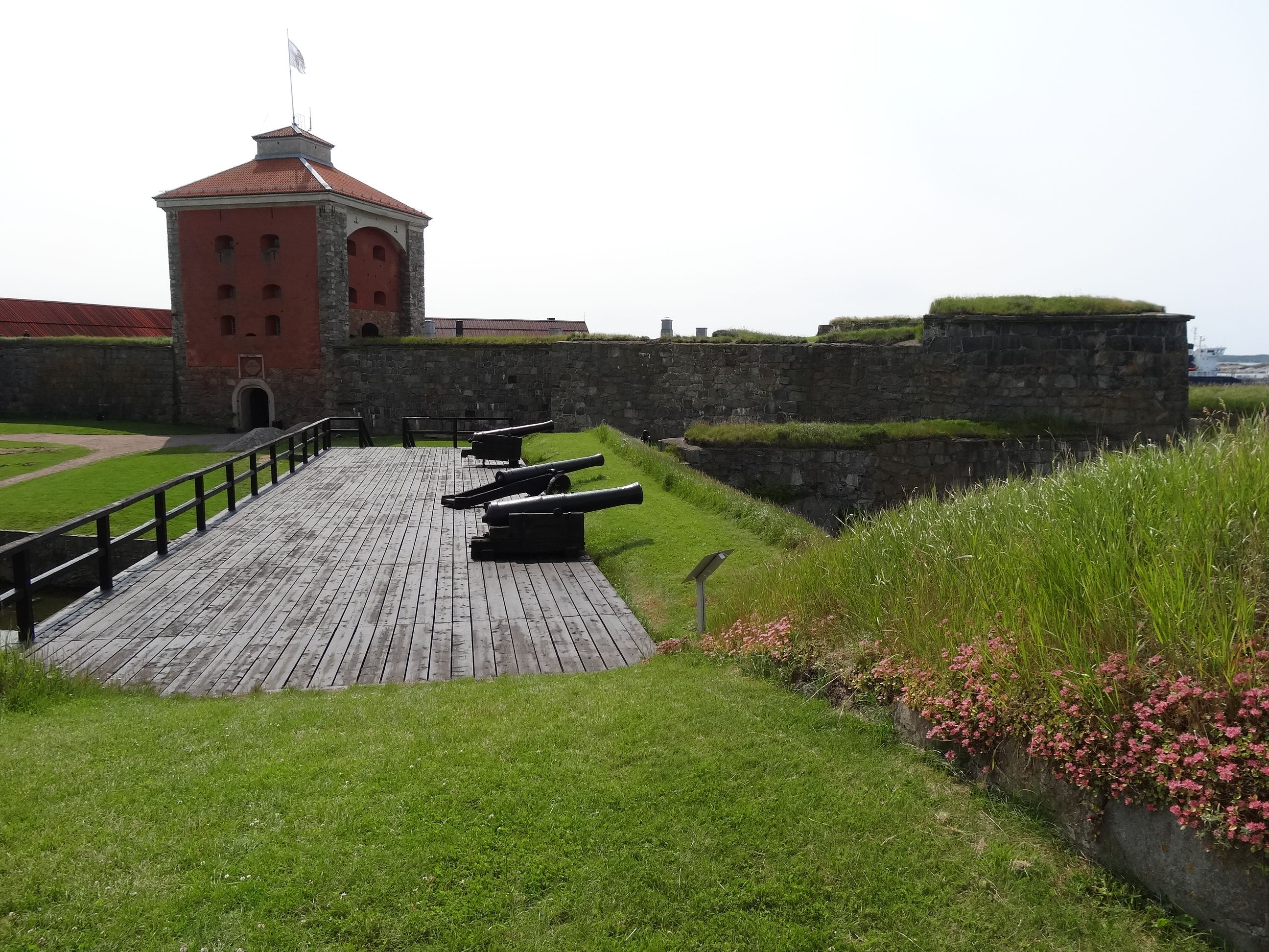 The notrhwestern bastion, The Lobster, at fortess Nya Älvsborg, Gothenburg, Sweden.